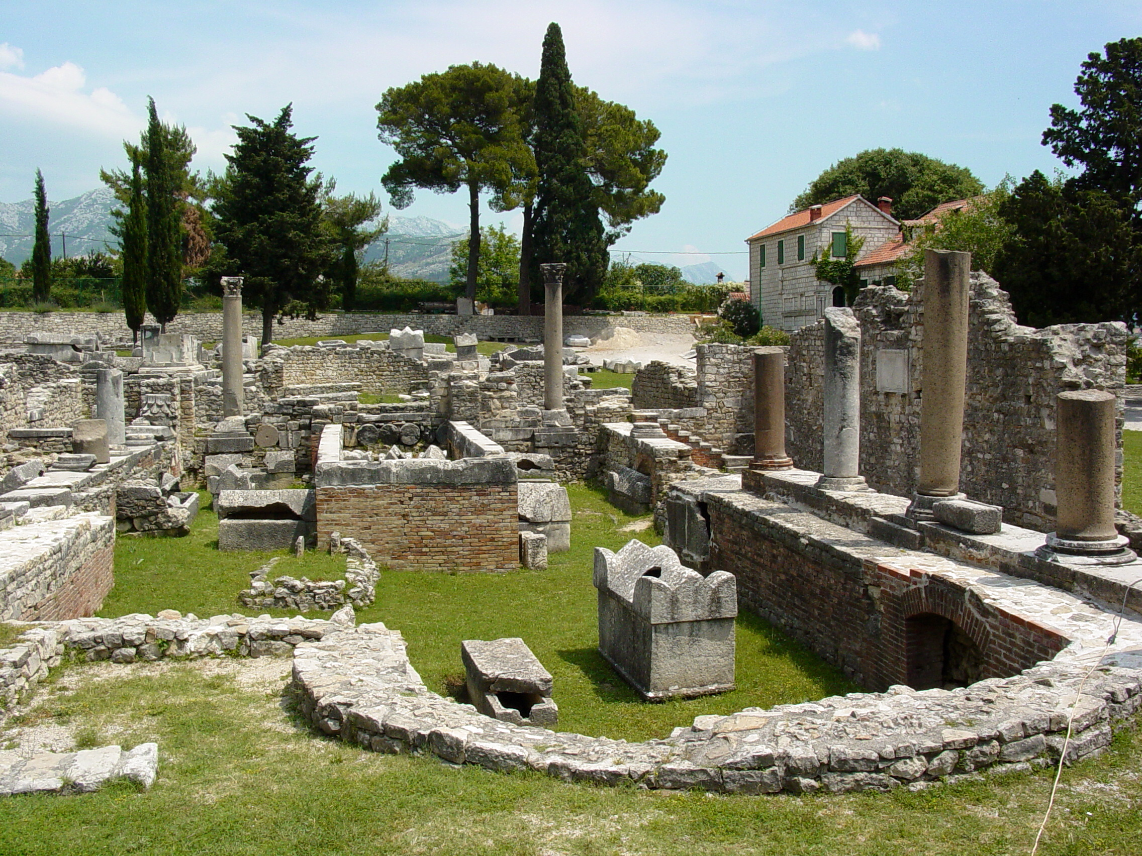 Romans ruins of Solin (Salona), outside Split, Croatia. June 2004.